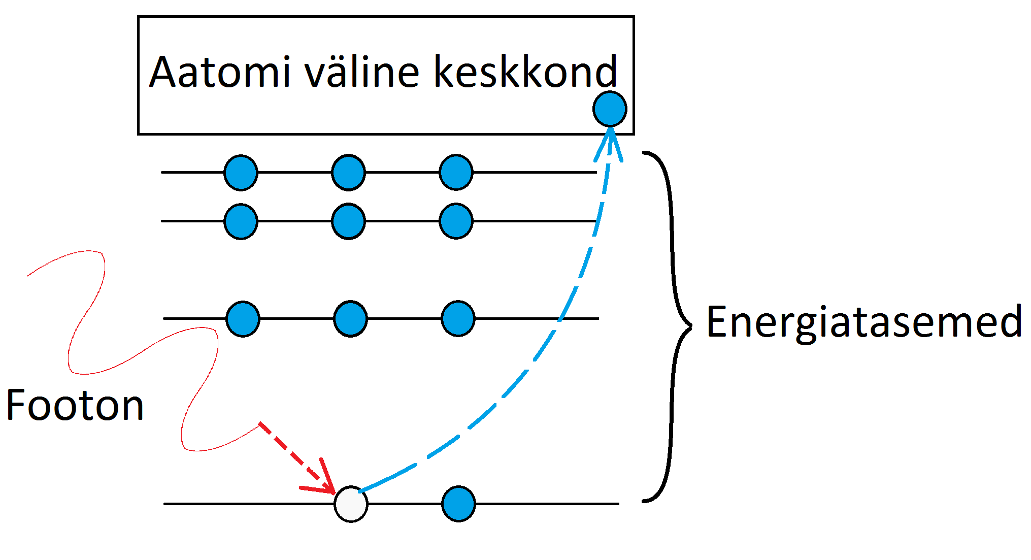 Kirjeldab röntgenkvandi fotoelektrilist neeldumist aatomis